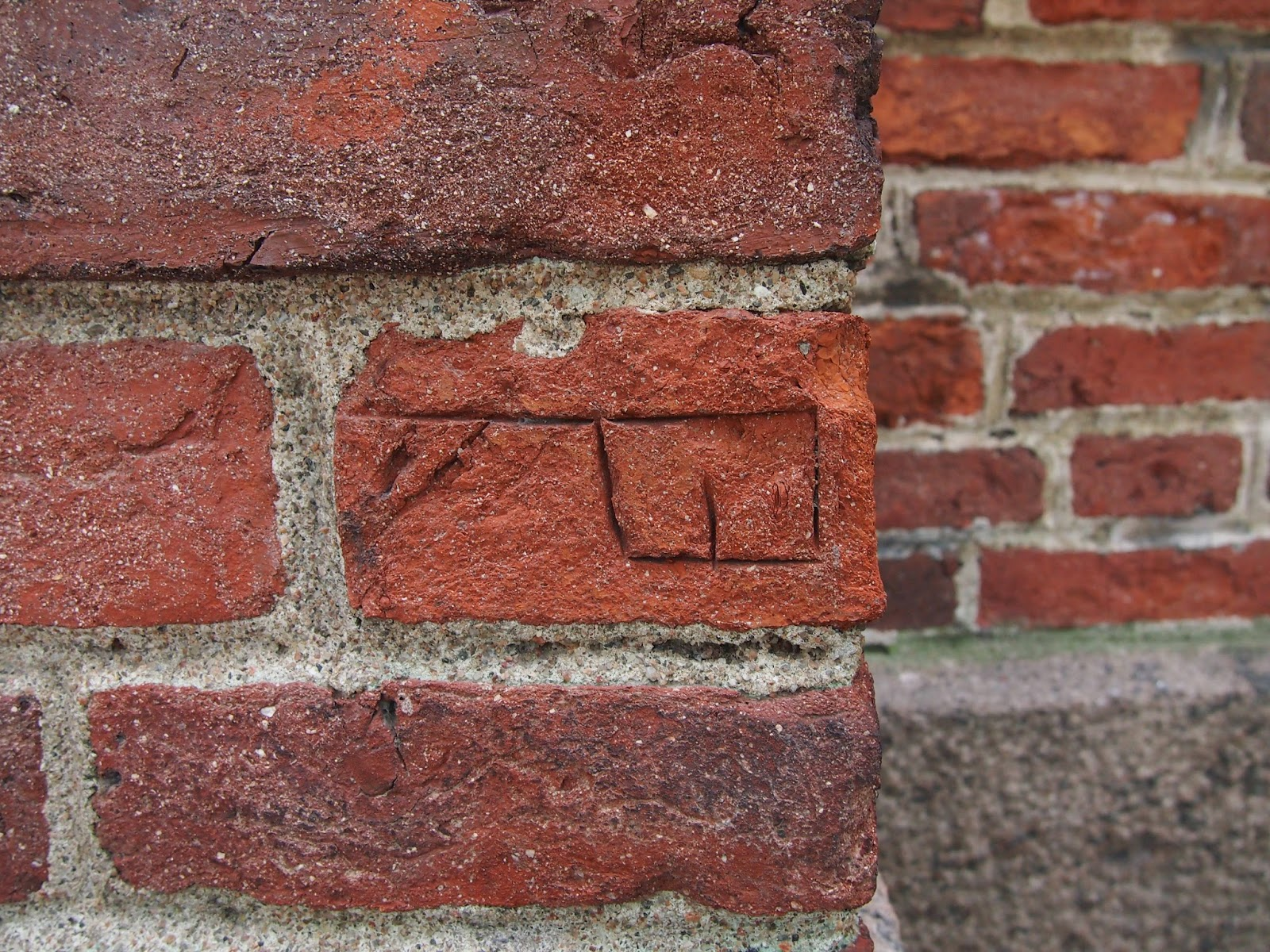 A late medieval brick maker's sign in Turku Cathedral, Finland.